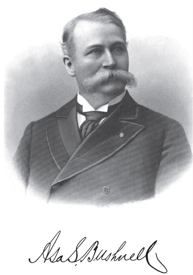 A governor of Ohio named Asa S. Bushnell